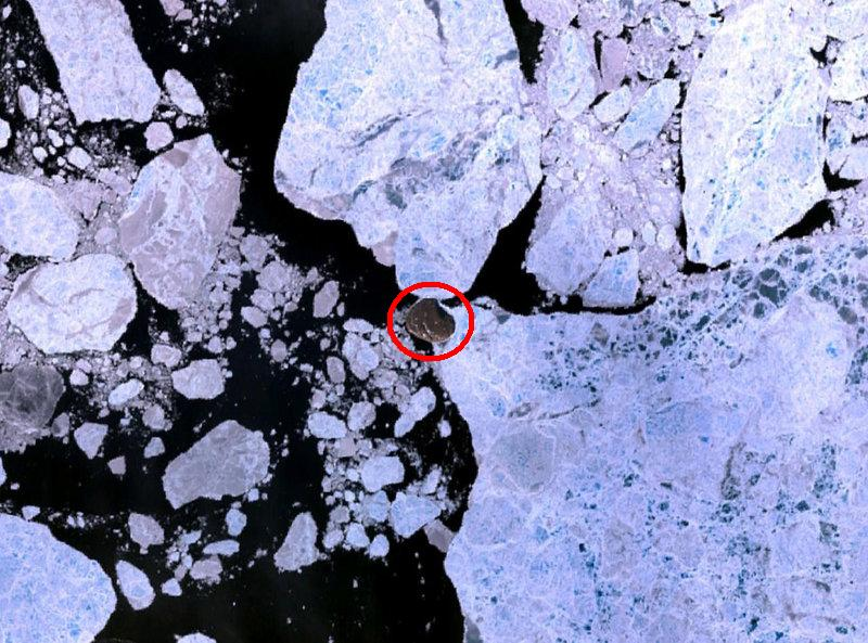 Hans Island, a disputed island in the Nares Strait near Greenland. NASA Landsat 7 image.